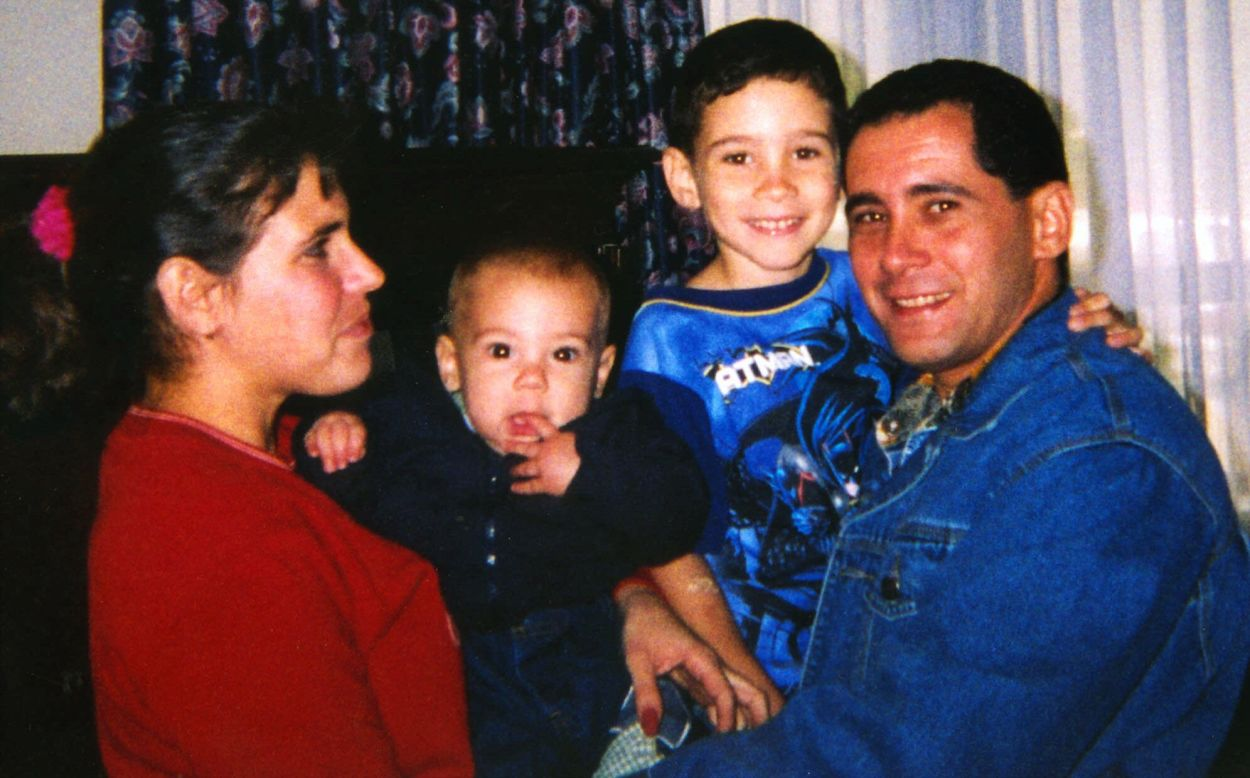 EliÃ¡n GonzÃ¡lez with his father and family members that was taken a few hours after their reunion at Andrews Air Force Base on April 22nd, 2000. It is described as "released by the government" on the website of the Public Broadcasting Station from where it is sourced.